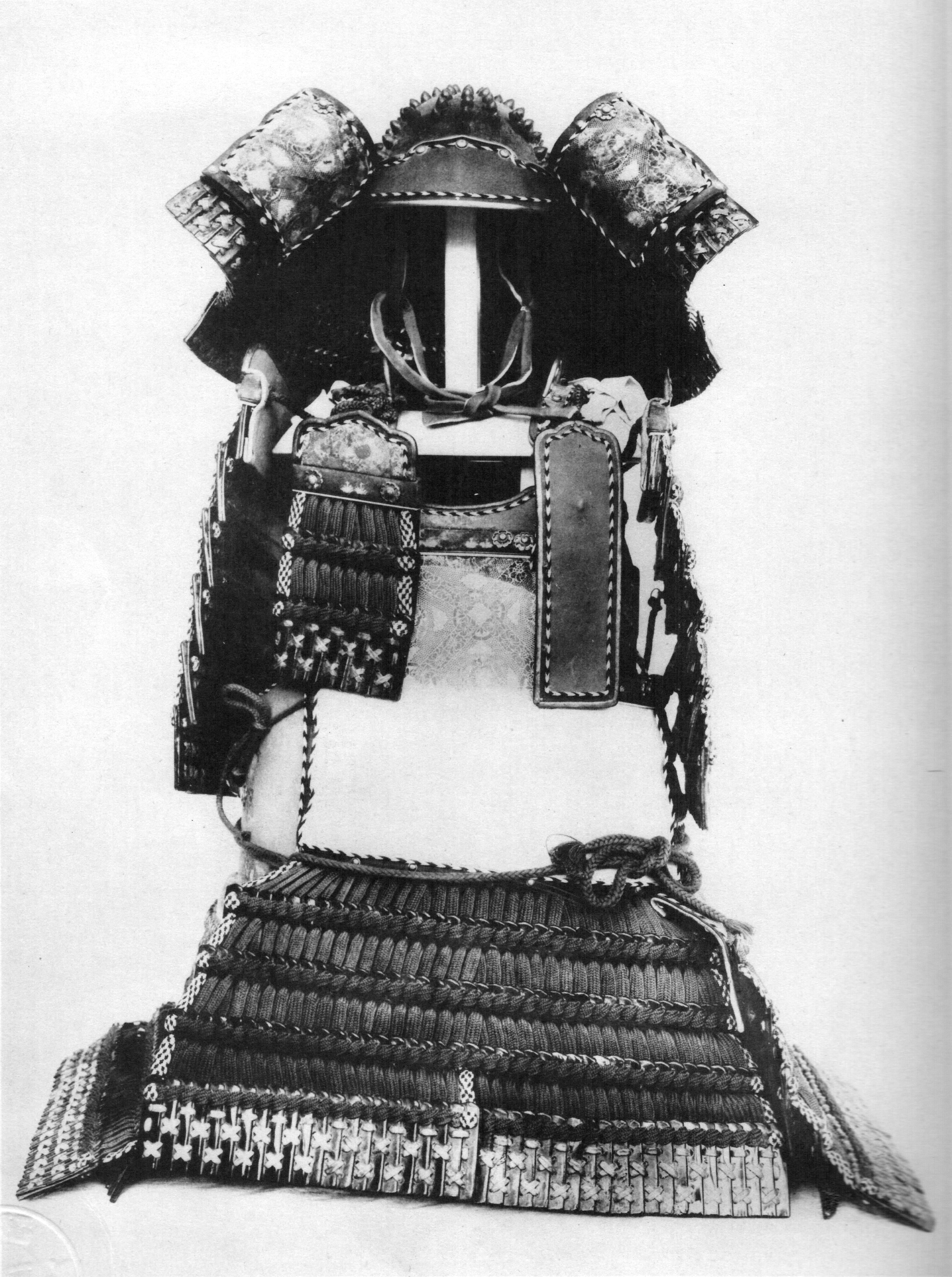 The suit of Kon'ito-odoshi Ō-yoroi (Ō-yoroi laced by navy braid) at Ōyamazumi Shrine in Ehime Prefecture.